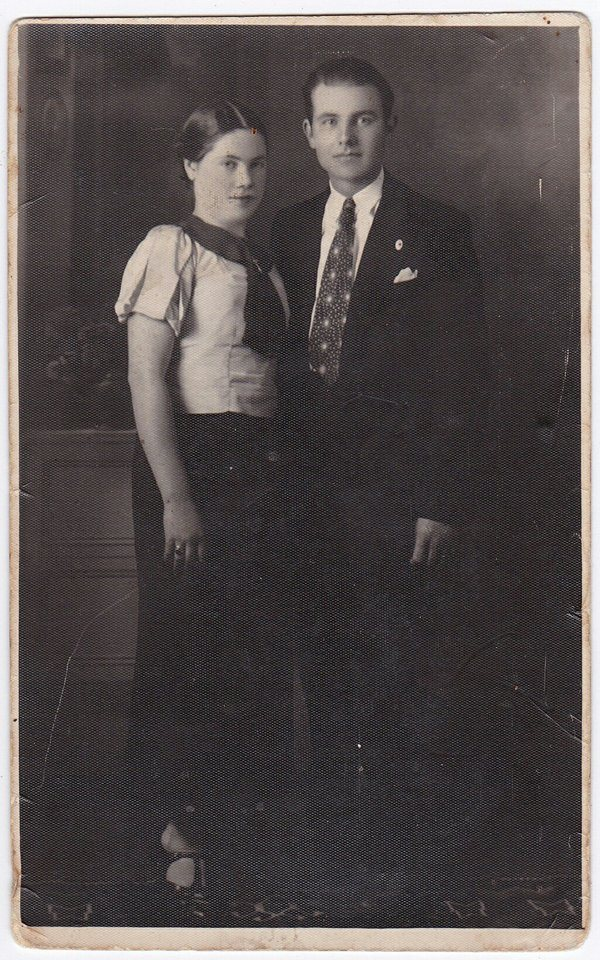 Alexandru Bardieru with his wife, Ecaterina Bardieru